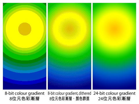 Demonstration of colour banding